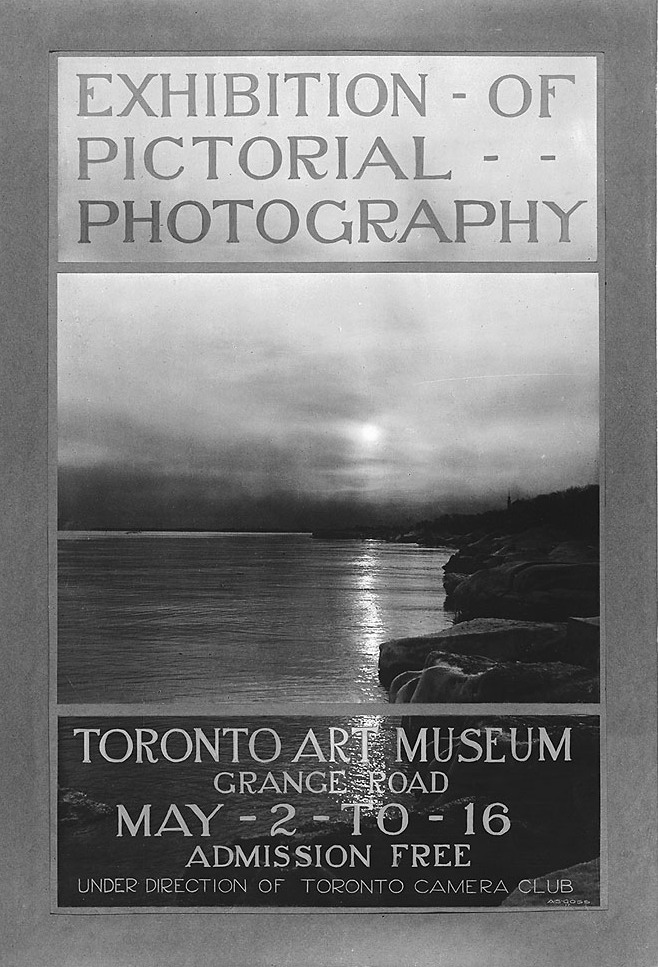 Poster and photograph by A.S. Goss for Toronto Camera Club Exhibition at Toronto Art Museum (predecessor to Art Gallery of Ontario). Toronto, Canada.